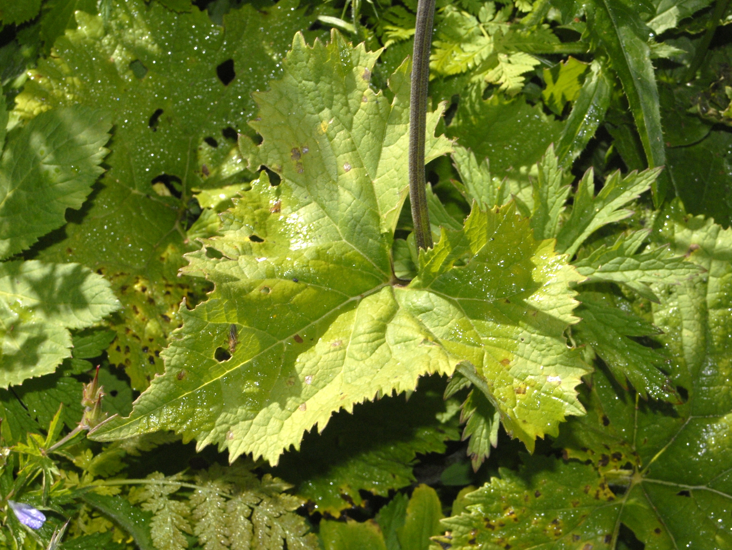 Leaf of Adenostyles alliariae at the Giardino Botanico Alpino Chanousia